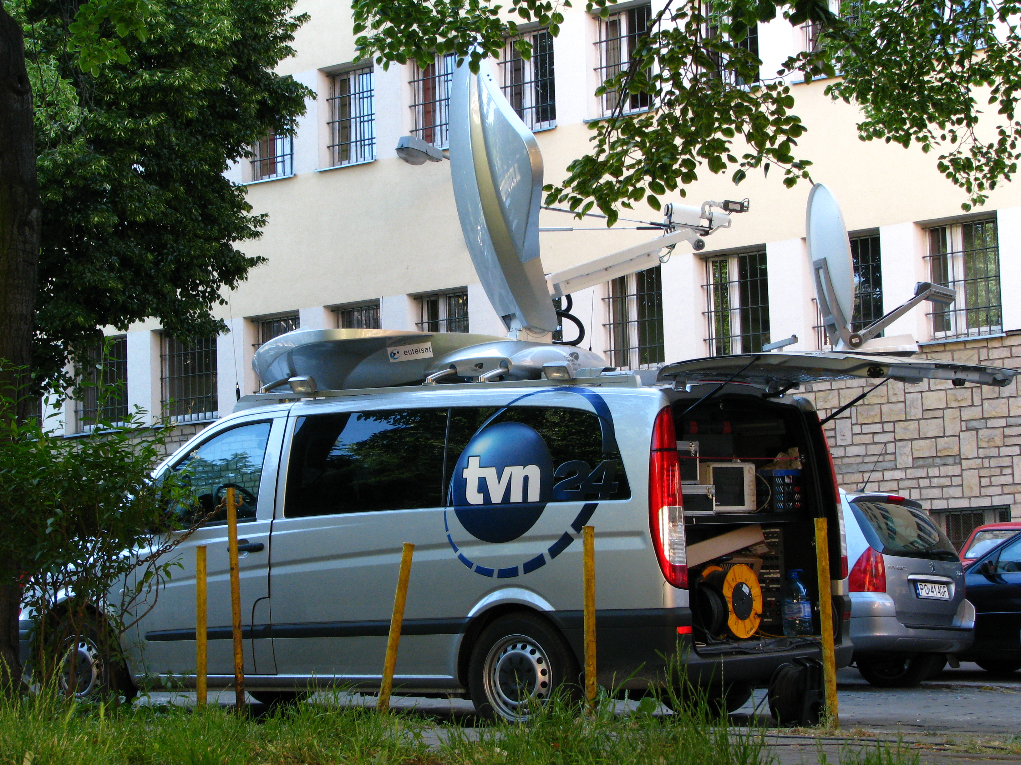 TVN24. Outside broadcasting van (SNG) during transmission from Poznan in Poland.